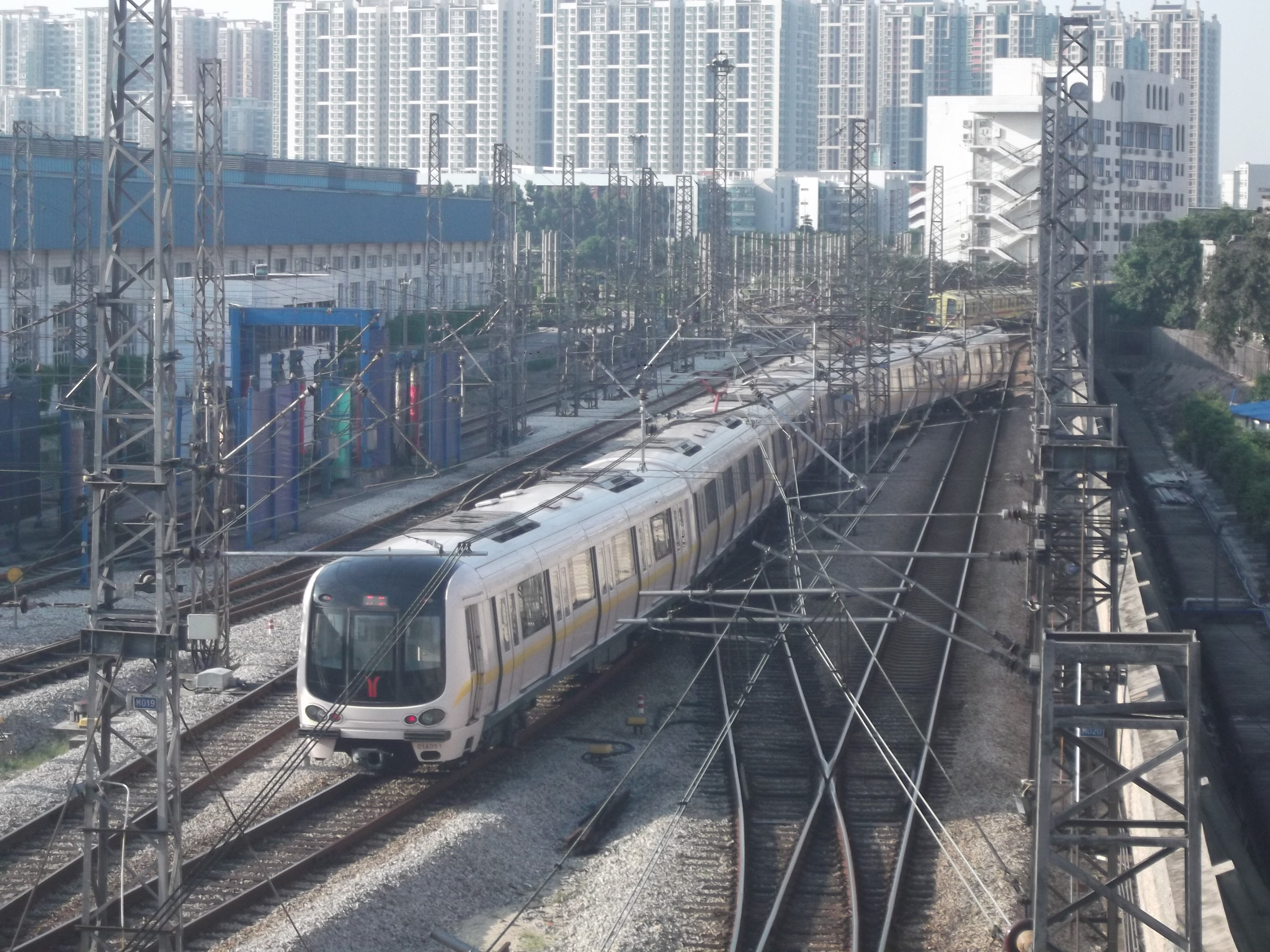 MOVIA 456 (Guangzhou Metro Train)